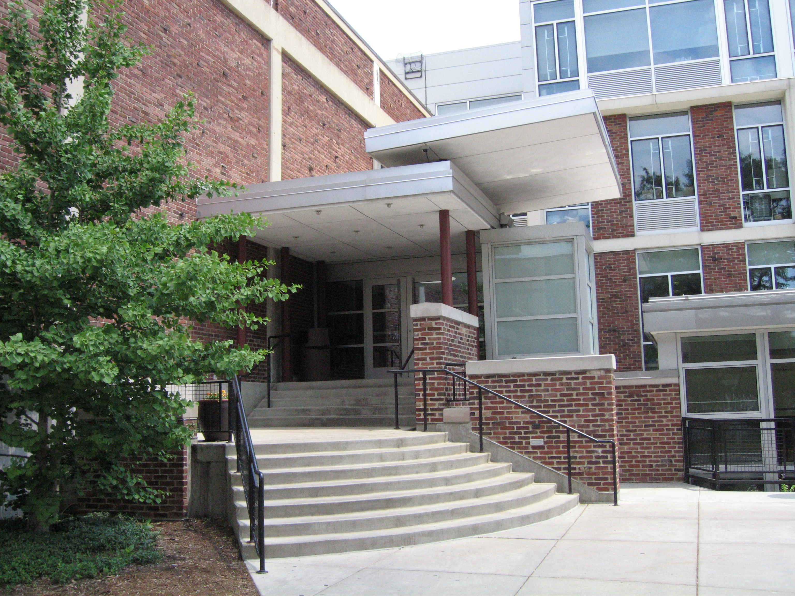 Francis W. Parker School, located at 330 W. Webster Chicago, Illinois 60614.